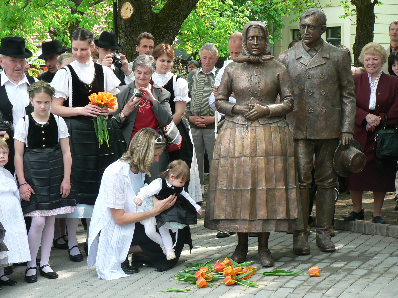 A Hagyomány szoborcsoport avatása